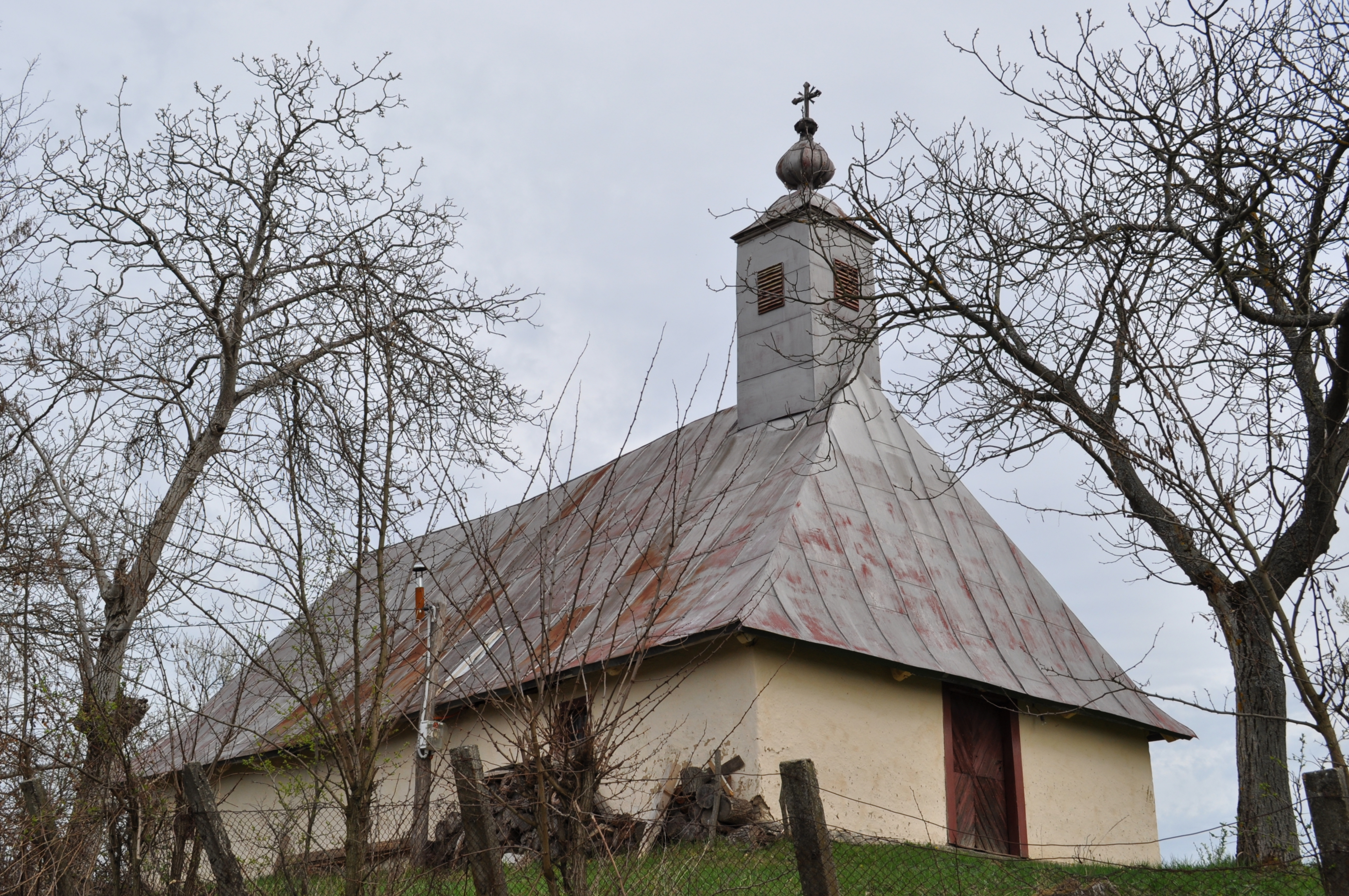 The old wooden church in Bruznic, Arad county, Romania